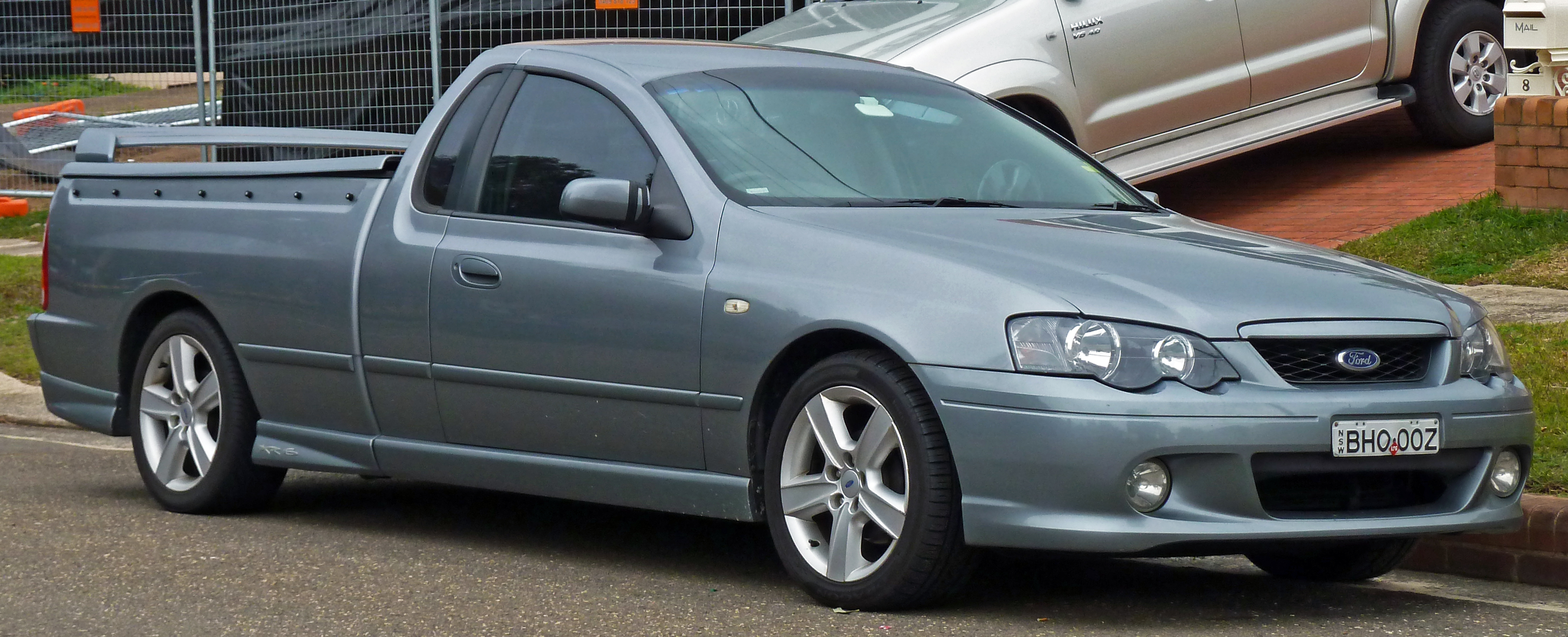 2002–2004 Ford Falcon (BA) XR6 utility. Photographed in Cronulla, New South Wales, Australia.